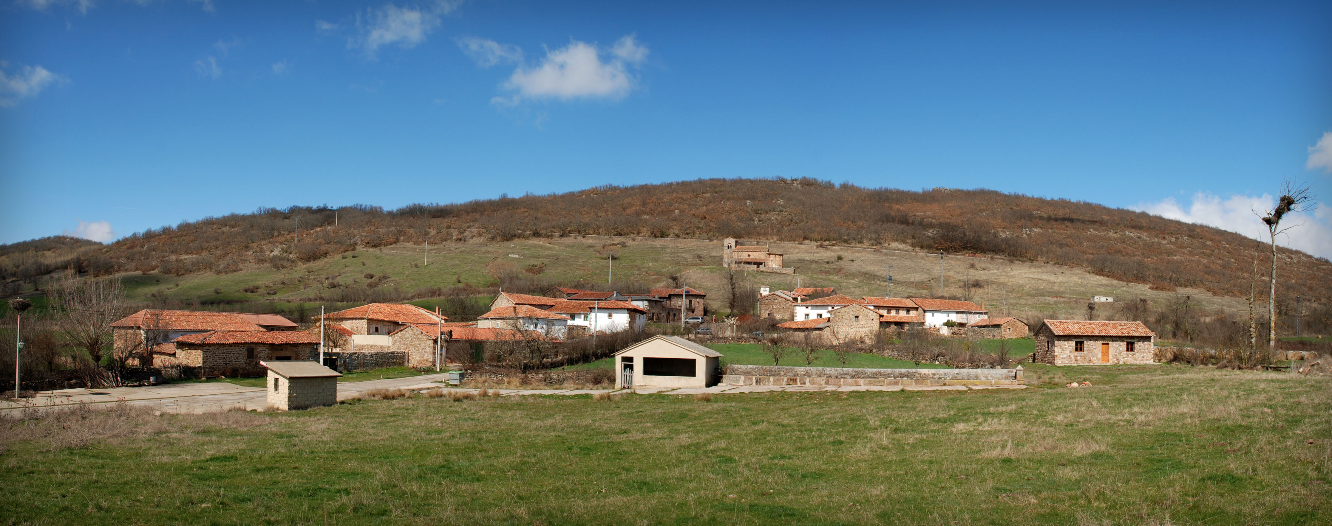 Villanueva de las Torres, small village in Barruelo de Santullán (Palencia, Castile and León).